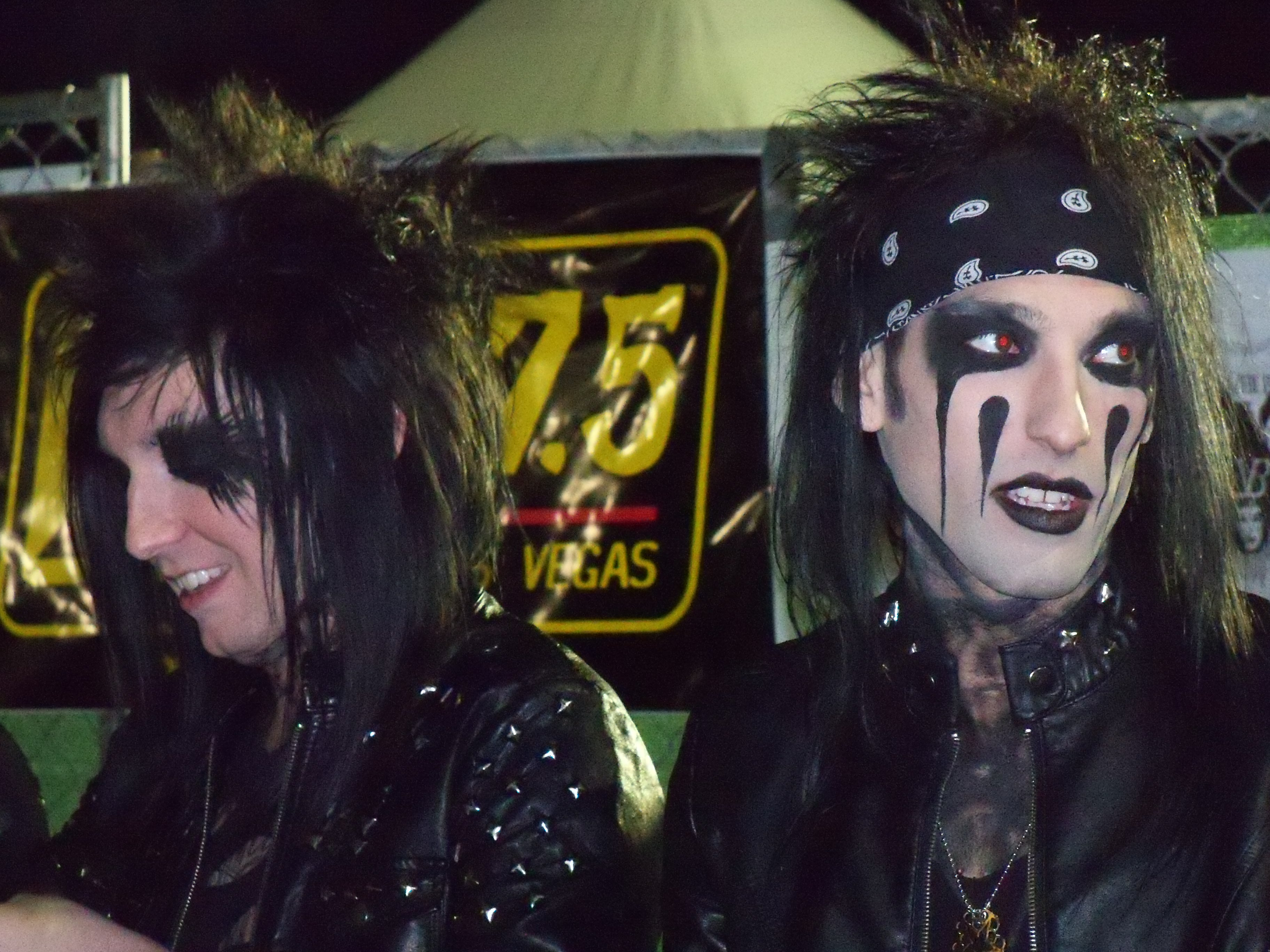 Black Veil Brides at a signing table for their fans in Las Vegas, NV.